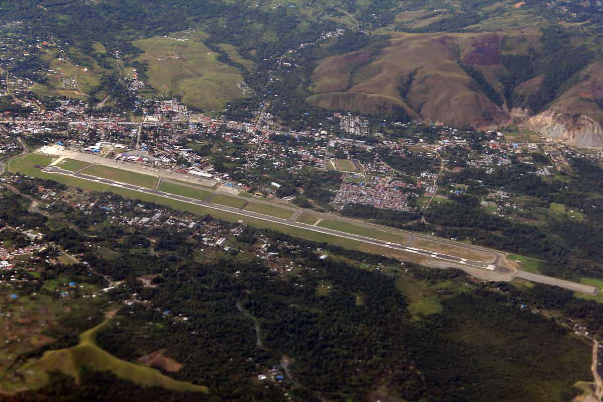 Picture of an aerial view of Sentani Airport from an aircraft. This image was taken April 12, 2013.